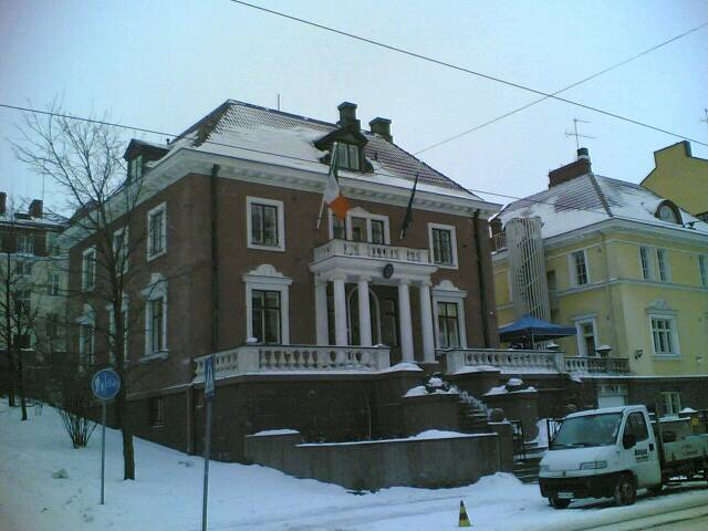 Embassy of Ireland in Helsinki.Irish embassy in Helsinki this snowy morning